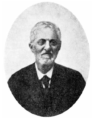 Dr Robert Braune (1845-1924), Austrian chess composer from Gottschee